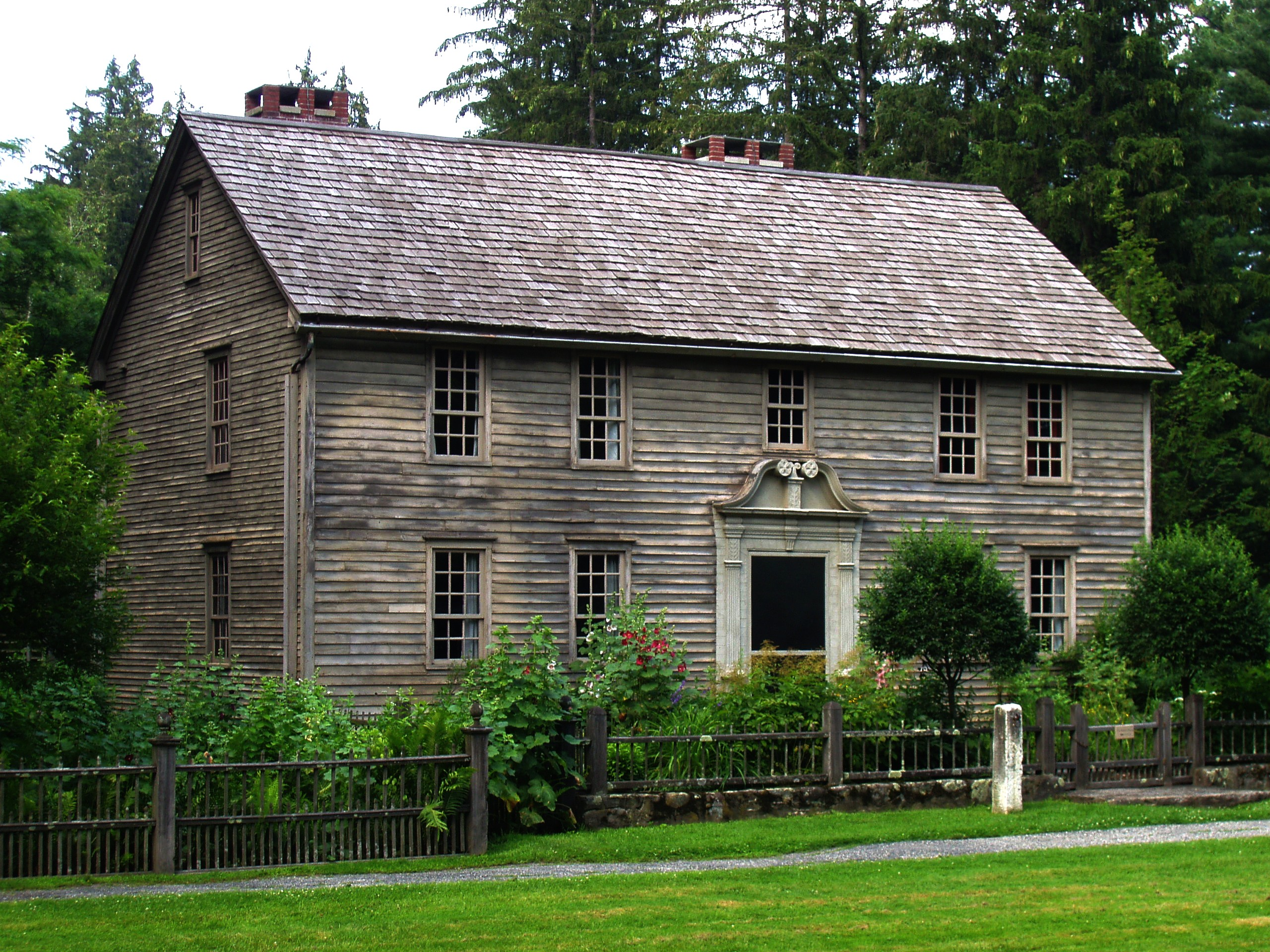 Mission House (Stockbridge, Massachusetts). This historic house, built 1739, is owned and operated by the Trustees of Reservations